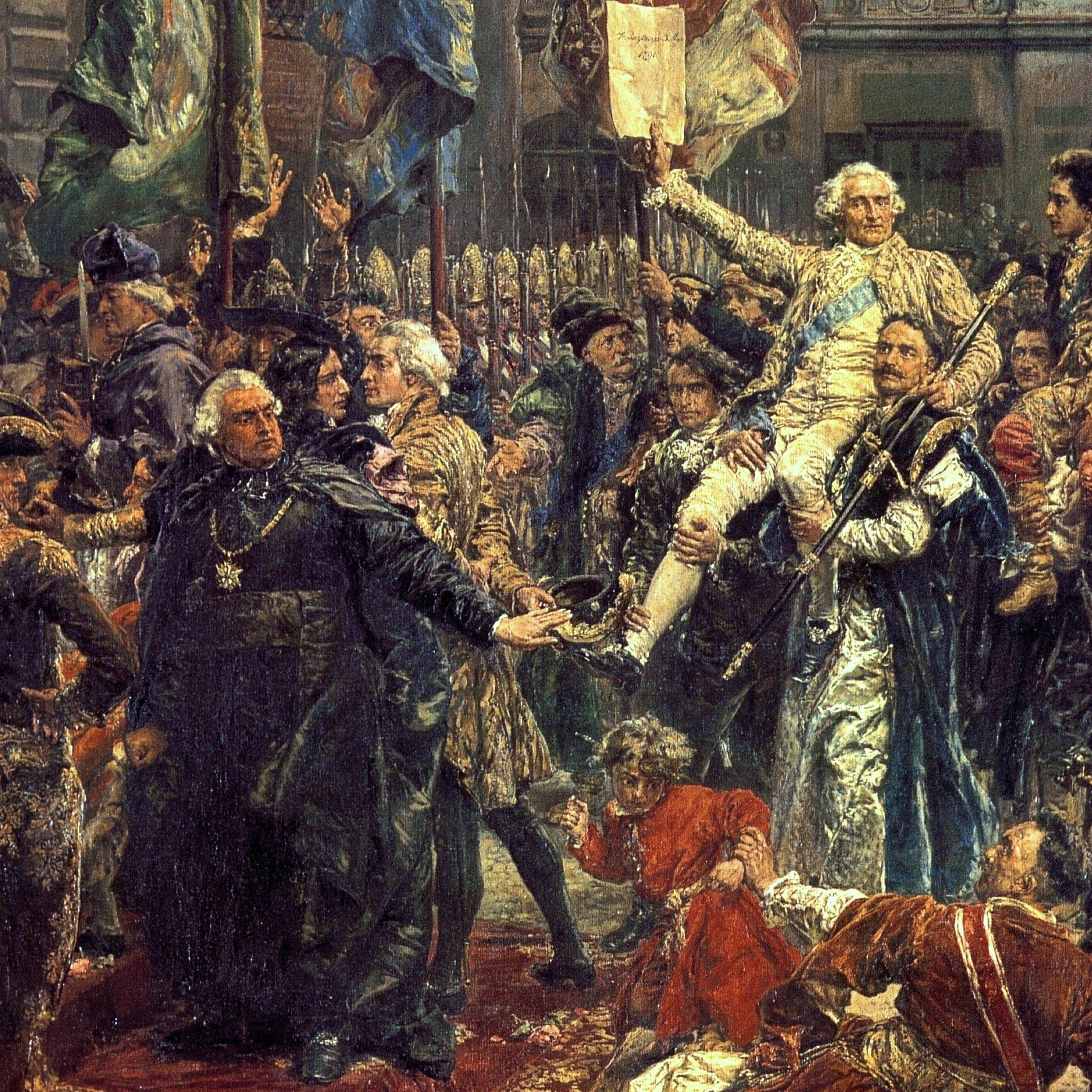 Adoption of the Polish Constitution of May 3, 1791. The painting depicts King Stanislaus Augustus together with members of the Grand Sejm and inhabitants of Warsaw entering St John's Cathedral in order to swear in the new national constitution just after it had been adopted by the Grand Sejm in the Royal Castle visible in the background. May 3rd Constitution was the first written national constitution in Europe, and the world's second, after the United States Constitution. The May 3rd Constitution was adopted by the Sejm of the Polish-Lithuanian Commonwealth on May 3, 1791